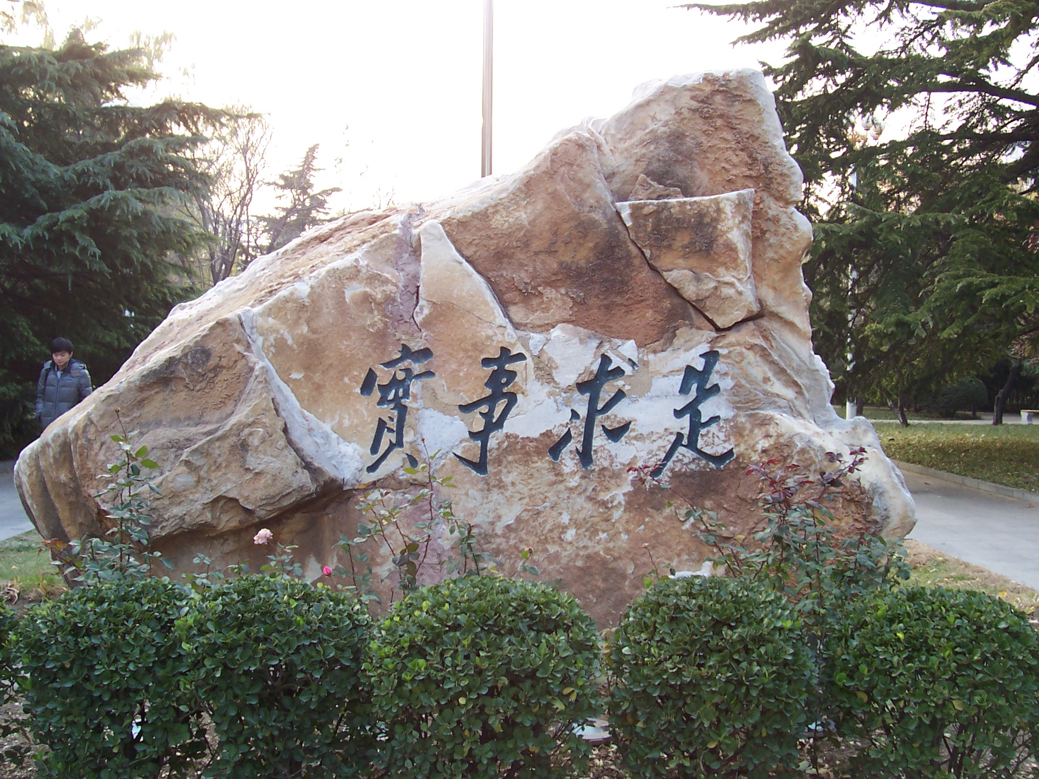 Renmin University Entrance